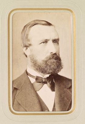 Conrad Heusler (1826–1907)